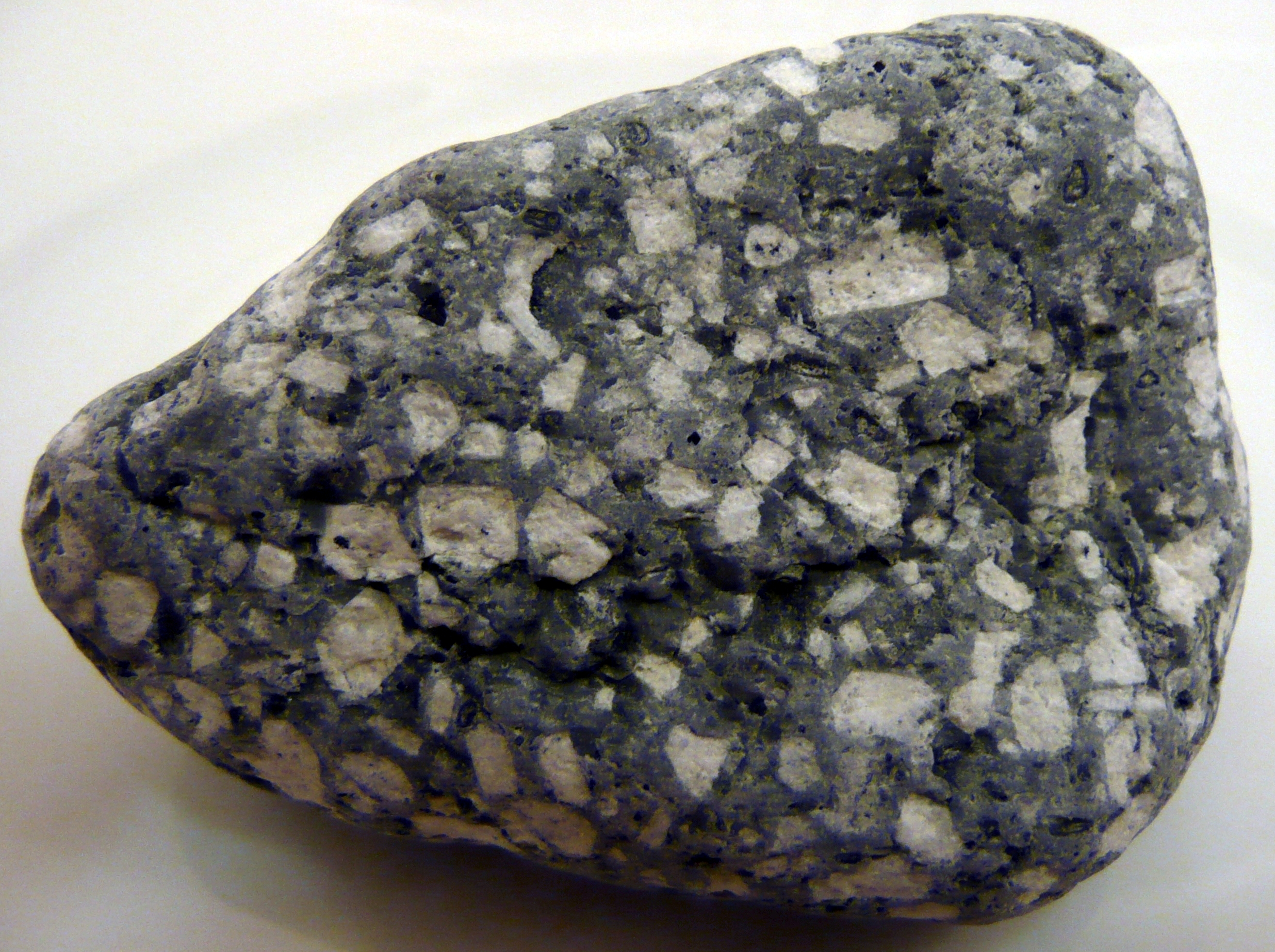 Small rock of blue Porphyry, called Estérellite, discovered during a small hiking organized by Gérard Olive. Gérard Olive is a professional naturalist and geologist who identified this rock as Estérellite. Map: 43° 25' 3" N 6° 49' 35" E